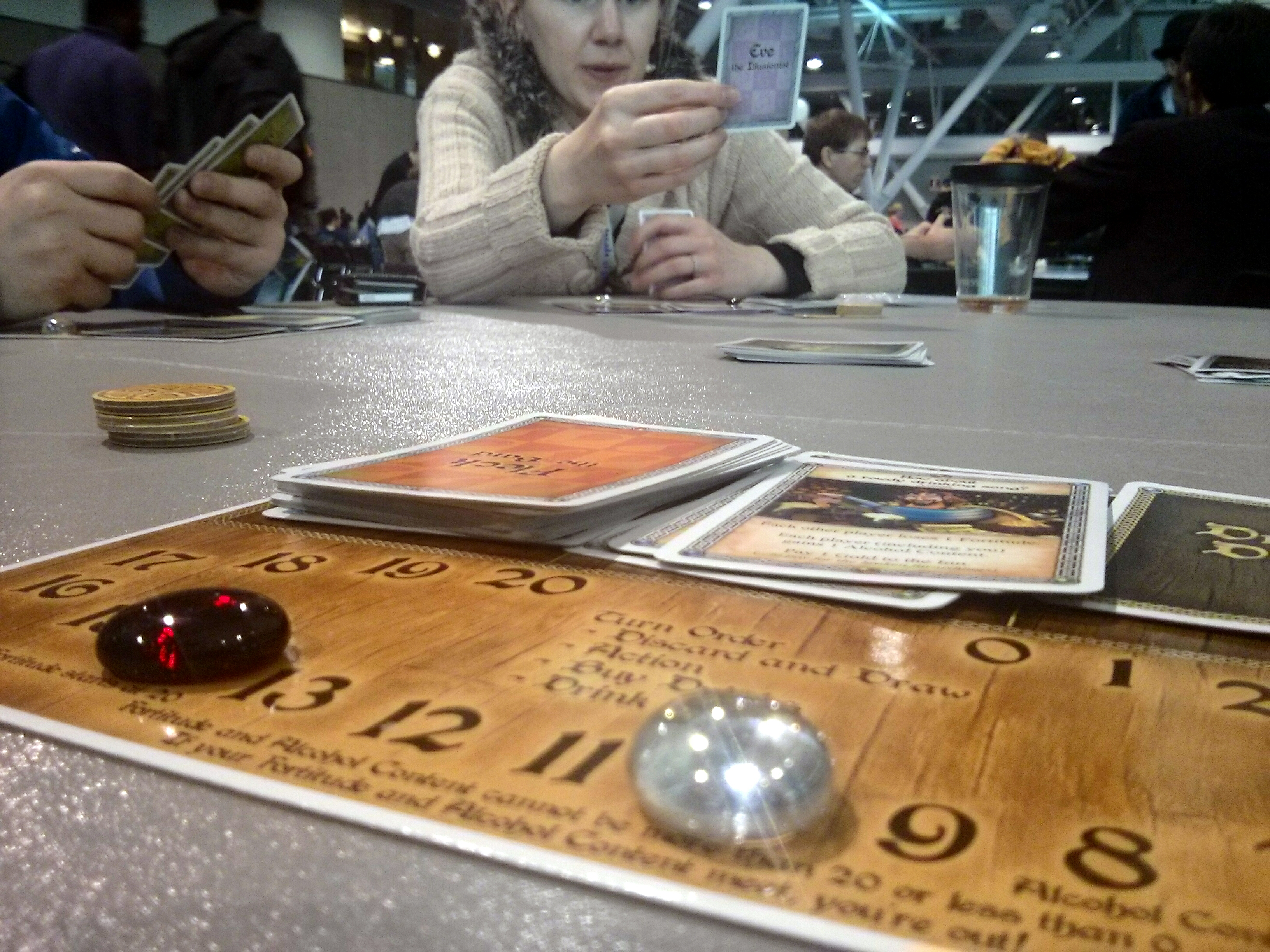 Hilarious and fun. Probably would have been even better with actual drinks.